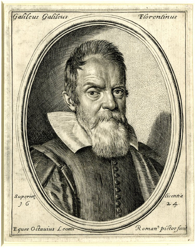 Galileo Galilei. Portrait by Ottavio Leoni.